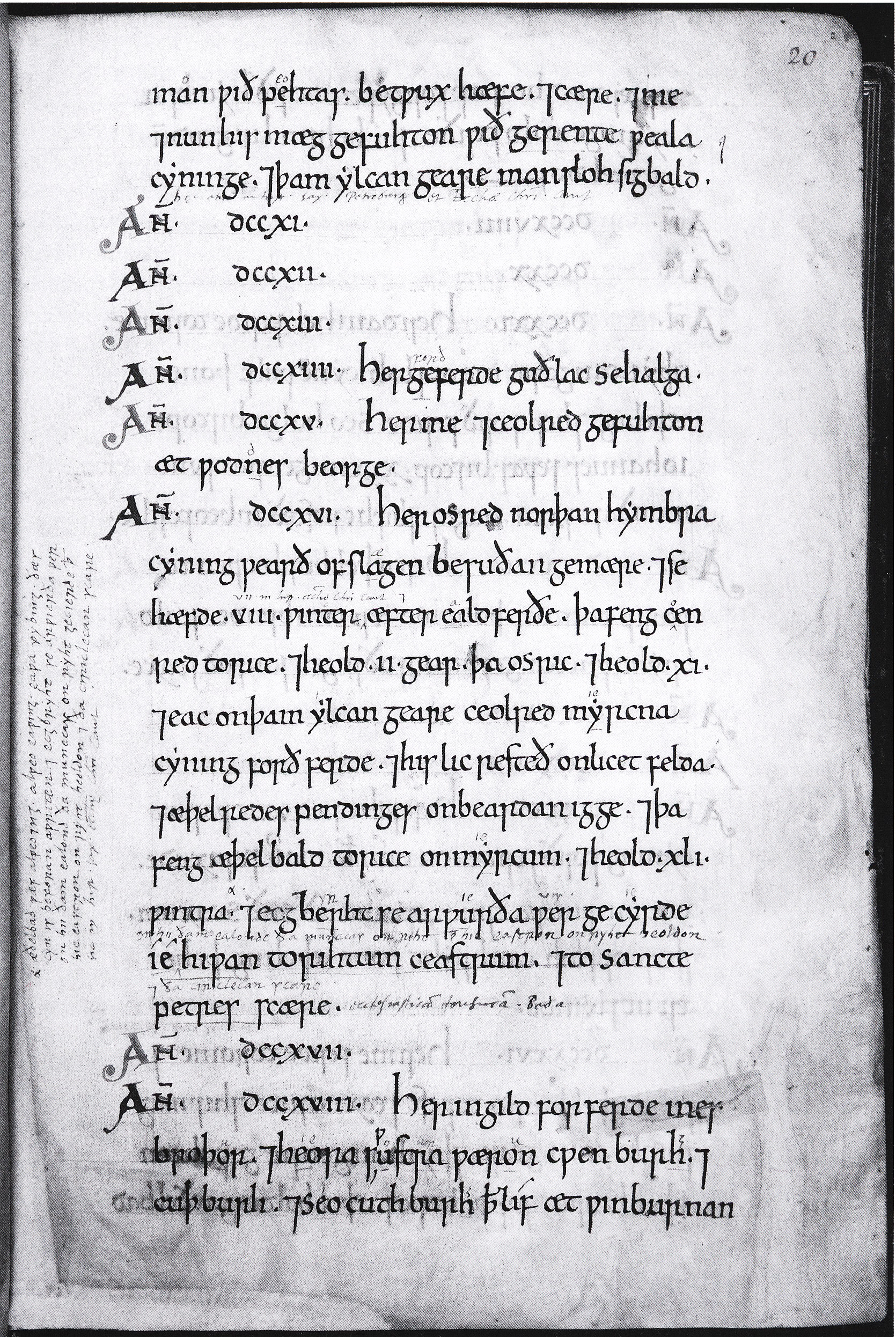 Folio 20 reverse of the British Library ms Cotton Tiberius B.iv (aka Anglo-Saxon Chronicle version D, from Worcester). This particular page was annotated in the 16th century by John Joscelyn, who likely owned the manuscript before it passed into Robert Cotton's hands.